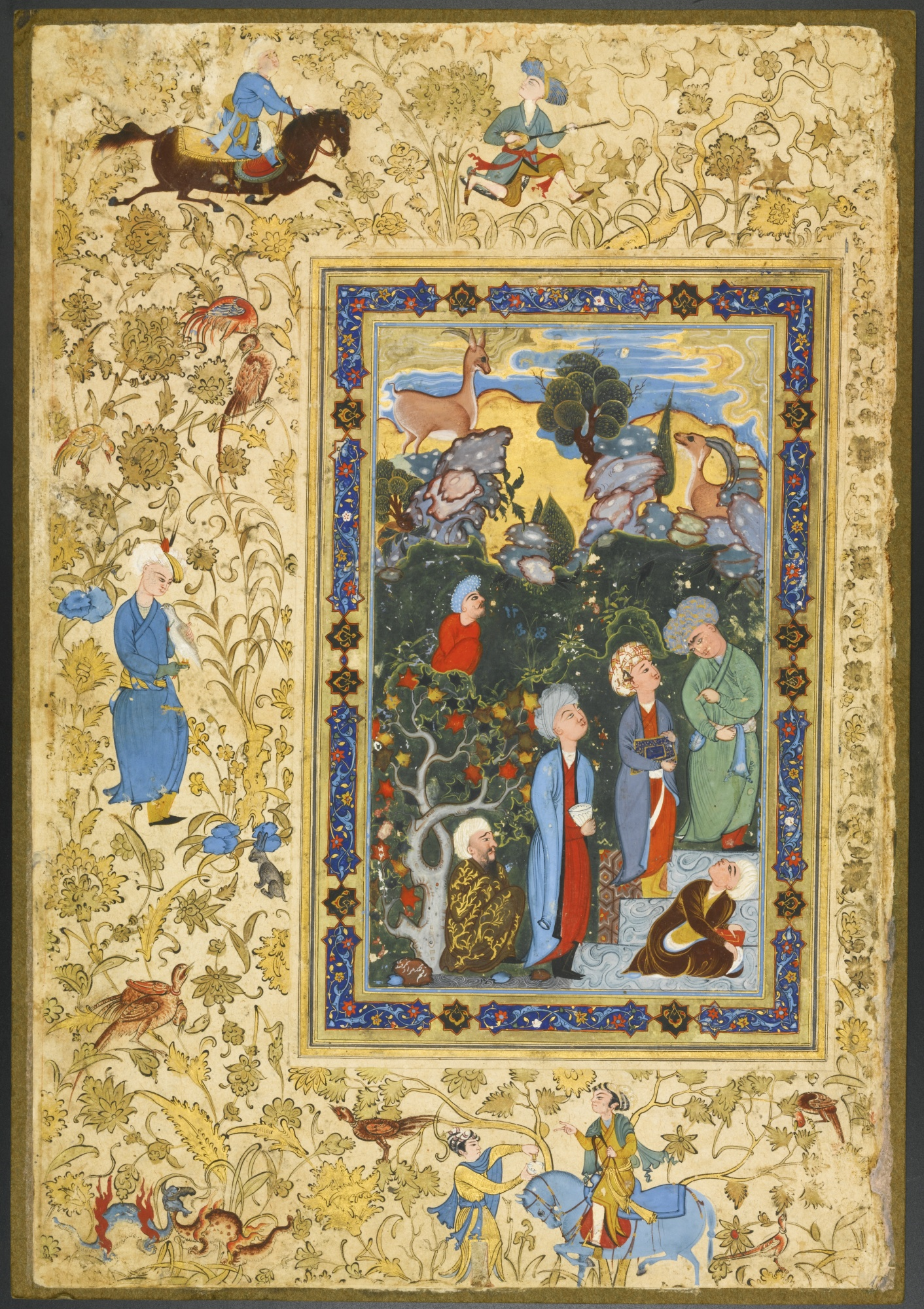 Four young scholars in discussion, signed by Muhammad Murad Samarqandi, Persia, Safavid, Bukhara, early 17th century, private collection. Gouache heightened with gold on paper, inner border of linked geometric cartouches filled with stretched flowing split palmettes, outer margins ruled in red and gold, filled with dense intertwining foliage interspersed with animals and figures riding, conversing and running, laid down on card. Painting: 19.3 by 11.4cm. Leaf: 37.5 by 26cm.